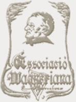 Logo of Wagnerian Association of Barcelona